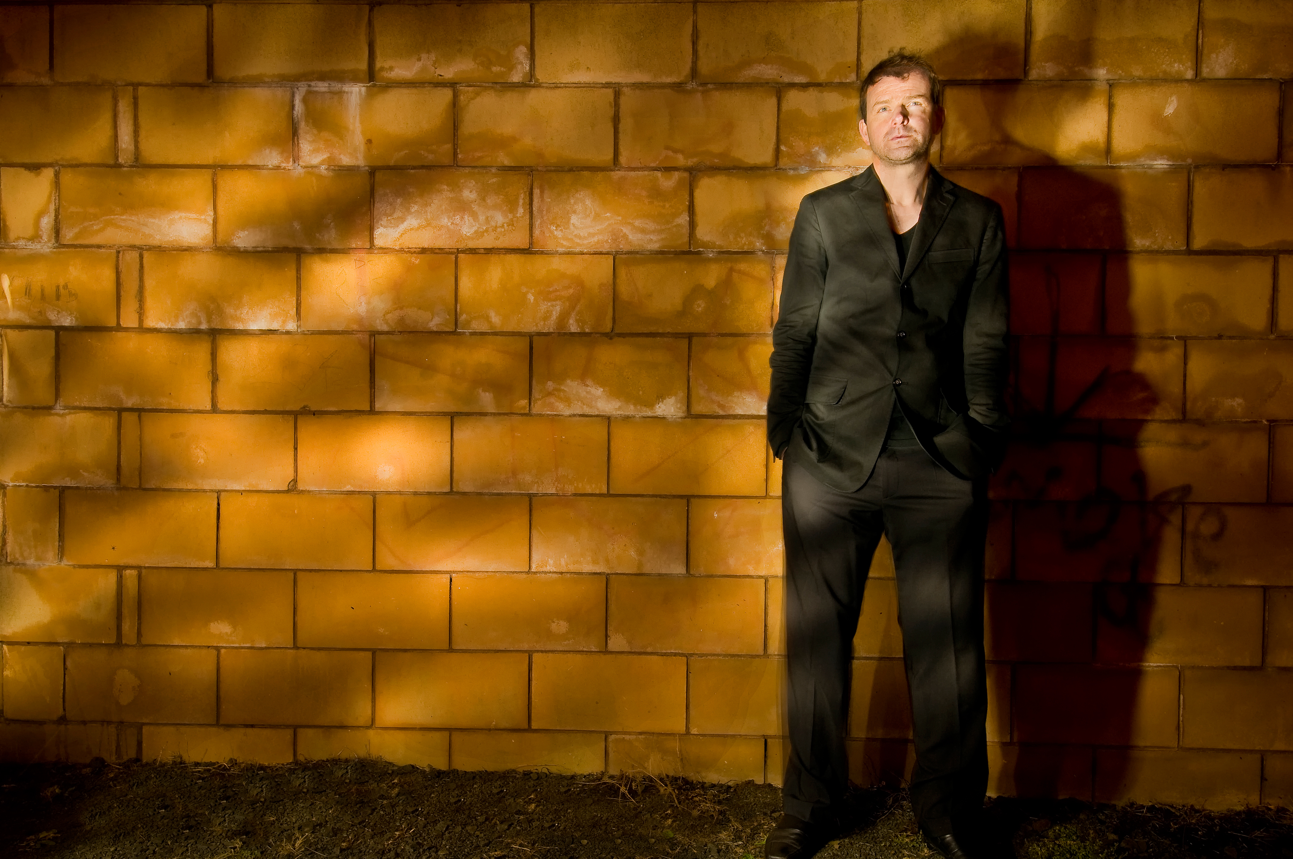 Image of musician Steve Adey used for promoting The Tower of Silence LP.